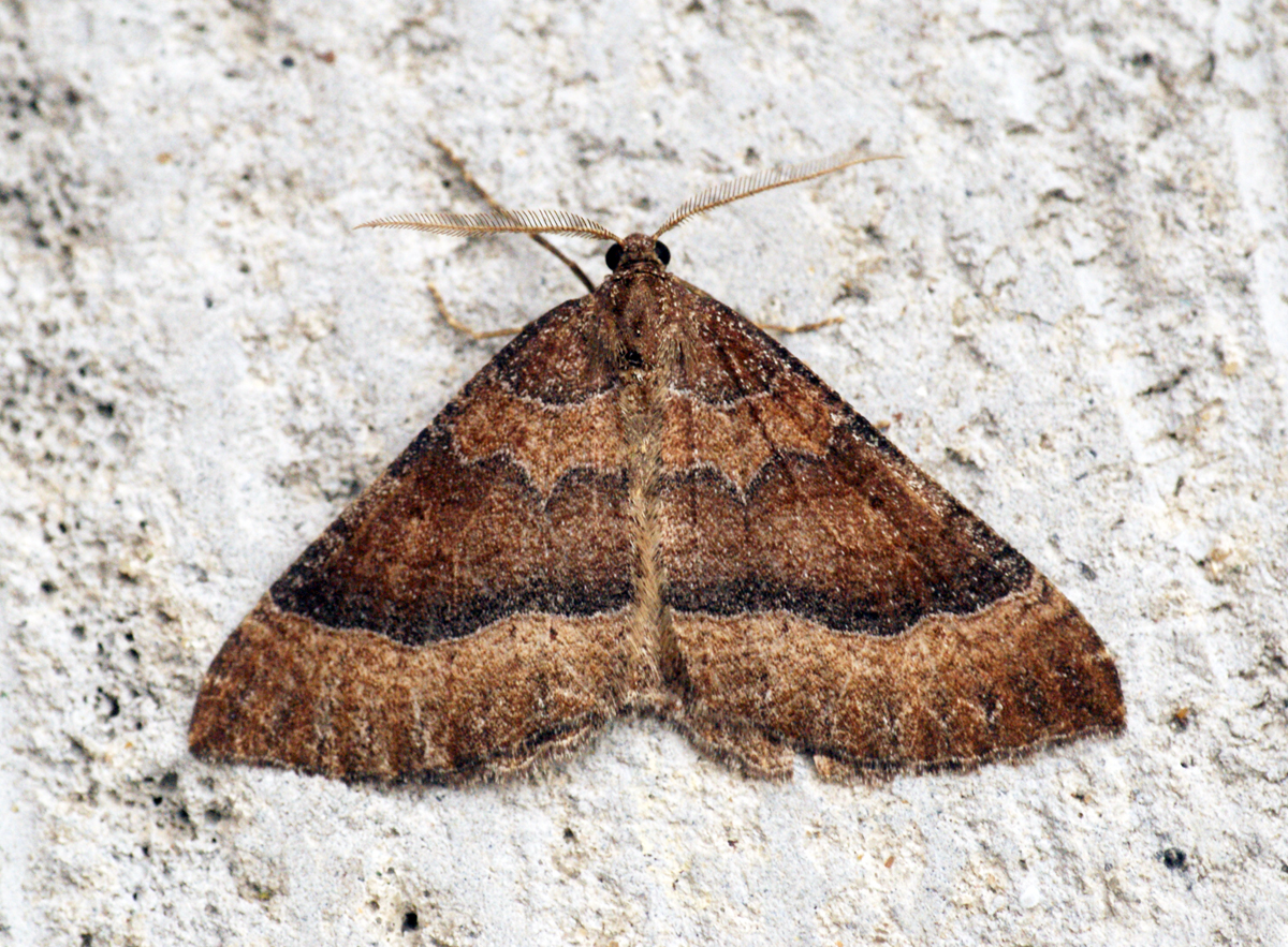 Garden catch pre-North winds On Sunday night I ran the garden trap again and I didn't do too bad at all, with 44 moths of 18 species present in the morning. Highlights were my second garden Dark Sword-grass, 5x Red-line Quaker's, and year firsts of Mallow and Red-green Carpet. The weather was warm and mild, but by the evening the sky had cleared and come the morning it was around 12 degrees (about what today has been during the day!) Catch Report - 06/10/13 - Back Garden Stevenage - 1x 125w MV Robinson trap Macro Moths 1x Red-green Carpet [NFY] 1x Mallow [NFY] 1x Large Ranunculus 1x Beaded Chestnut 1x Satellite 2x Barred Sallow 1x Broad-bordered Yellow Underwing 3x Lesser Yellow Underwing 1x Dark Sword-grass 5x Red-line Quaker 1x Green-brindled Crescent 2x Common Marbled Carpet 5x Setaceous Hebrew Character 1x Spruce Carpet 9x Large Yellow Underwing 2x Chestnut Micro Moths 5x Epiphyas postvittana 2x Acleris sparsana